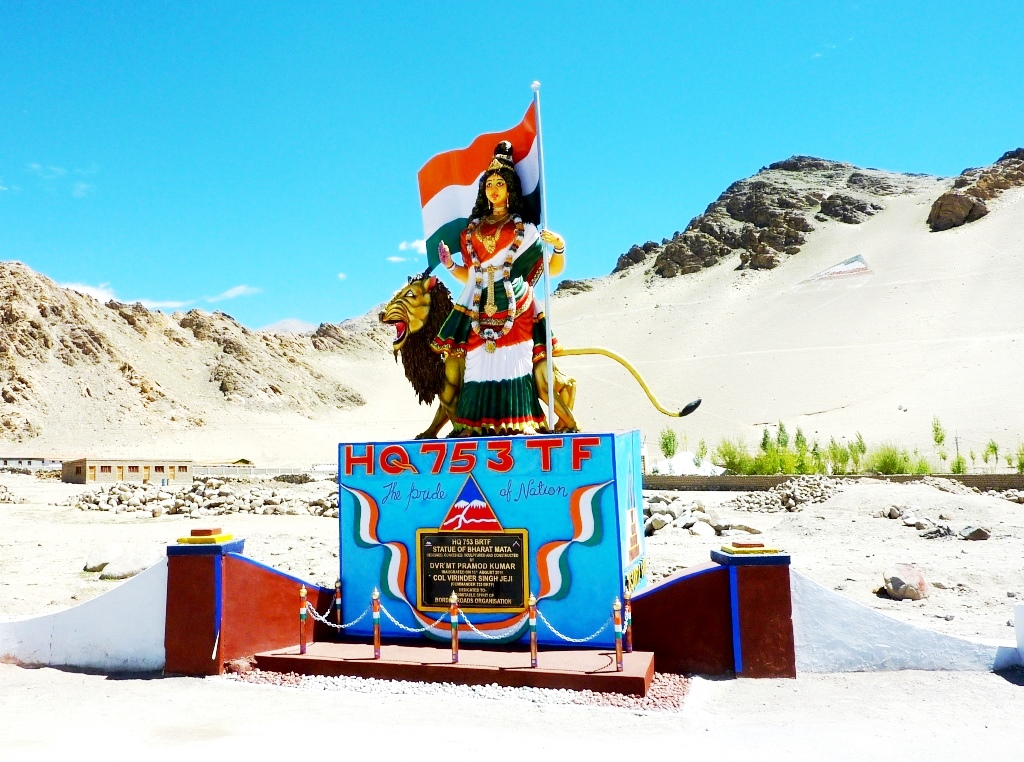 I took this photo not far from Leh, Ladakh in 2010.